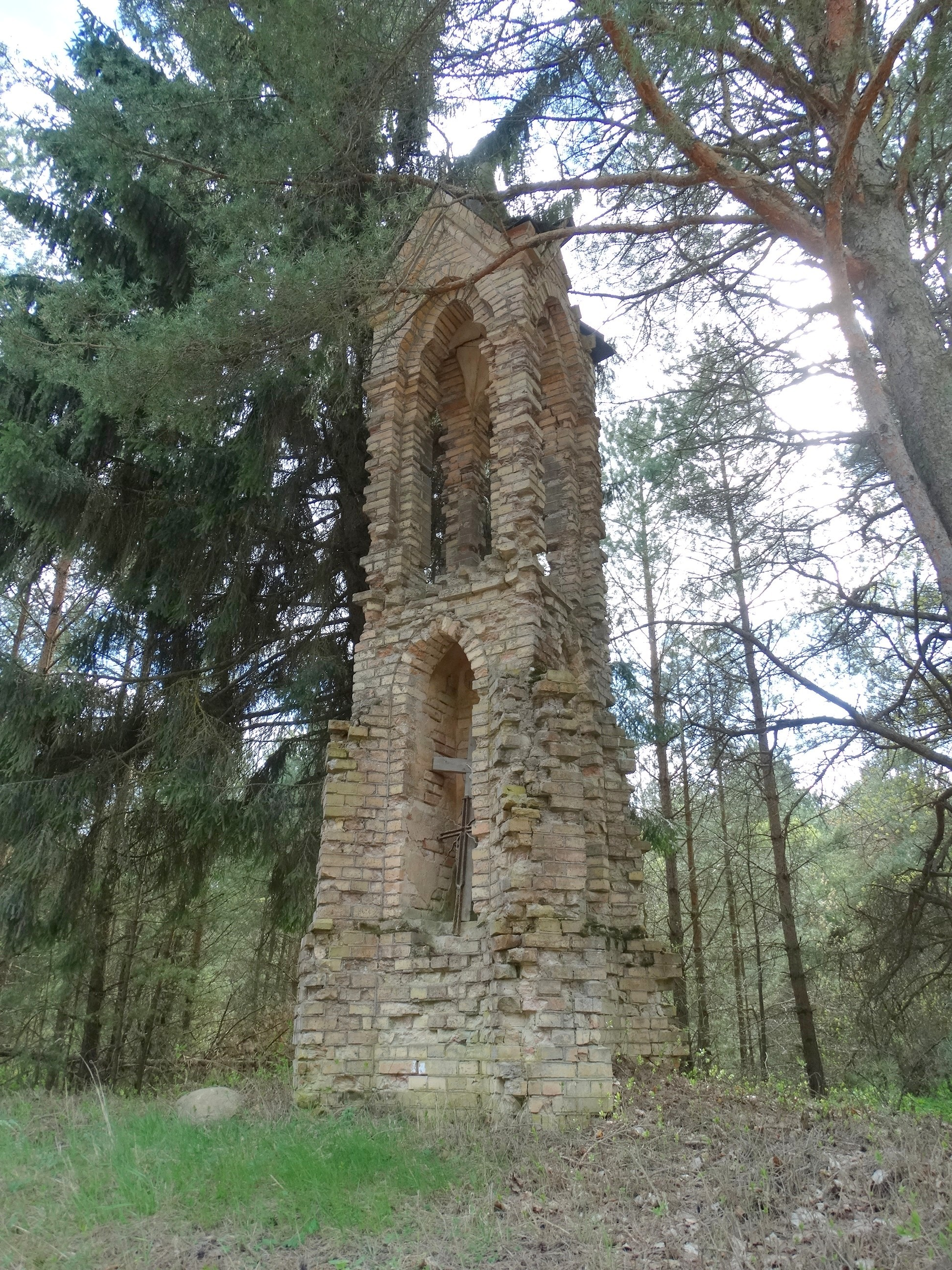 Dieveniškės, wayside chapel, Šalčininkai District, Lithuania